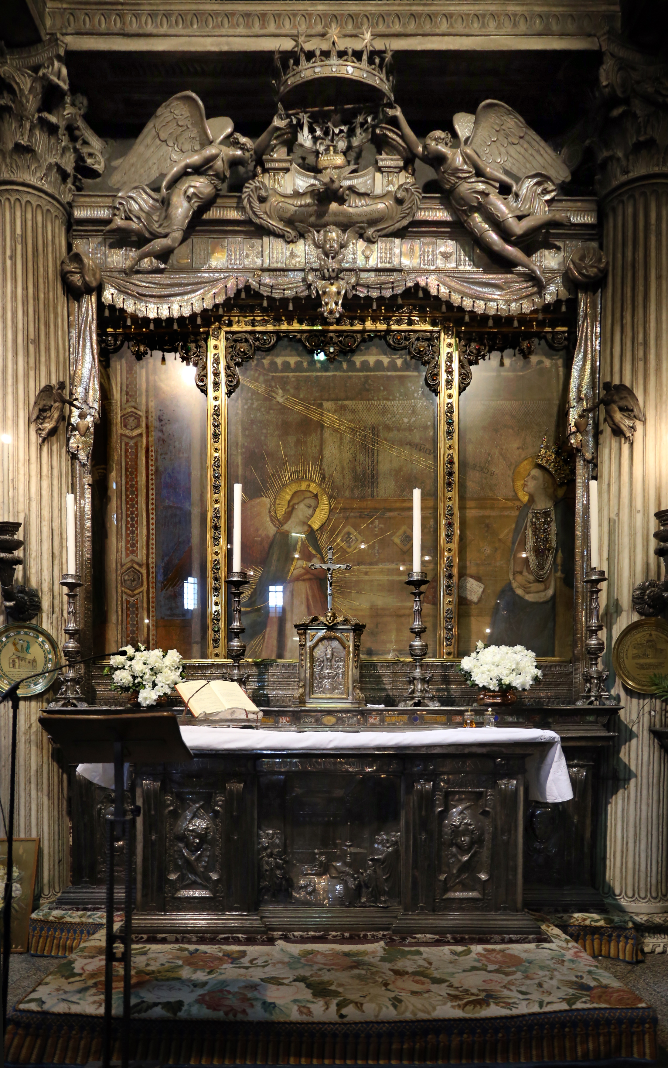 Santissima Annunziata (Florence) - Annunziata Chapel and its pertinent rooms